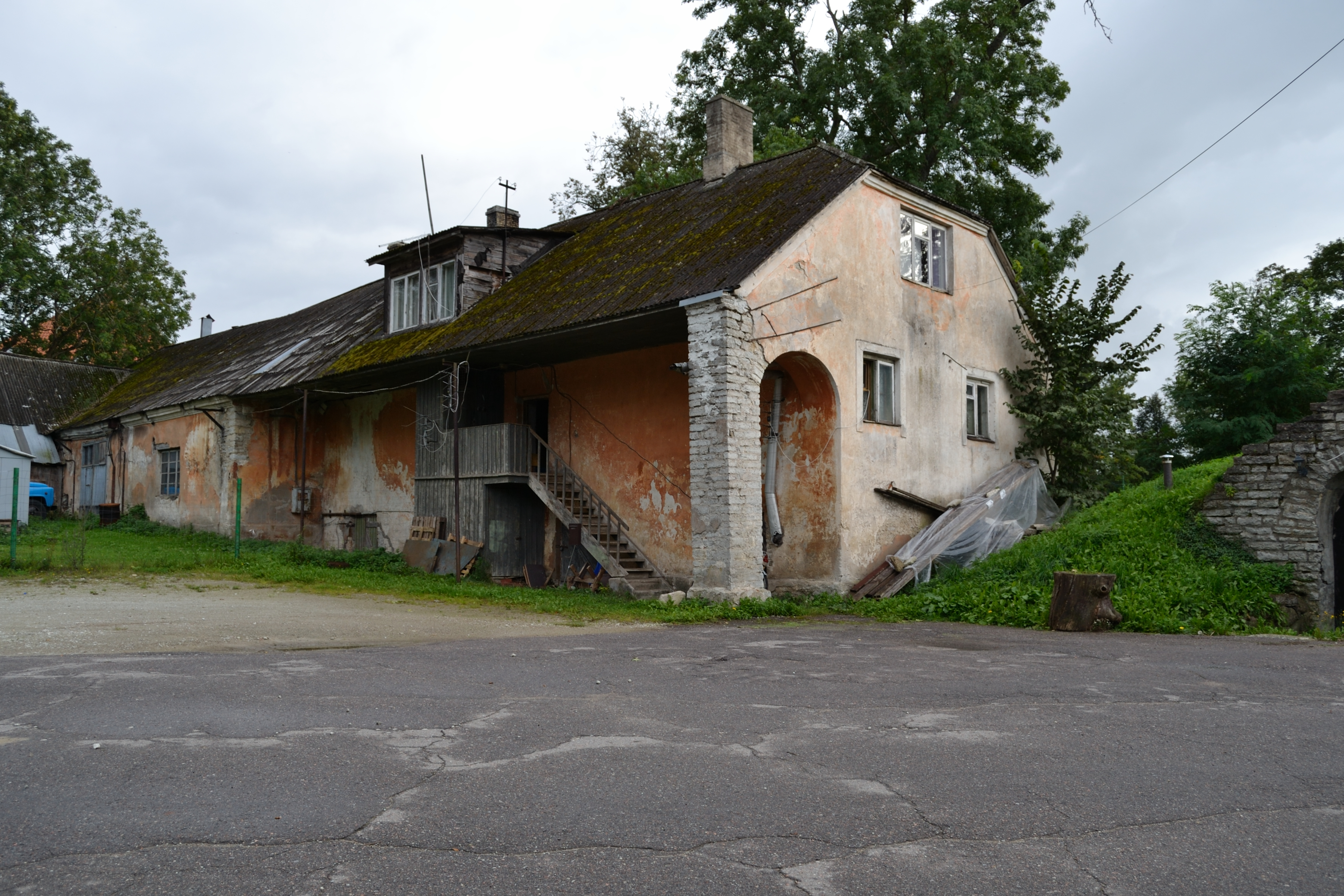 Saue manor ruler house, 18. century